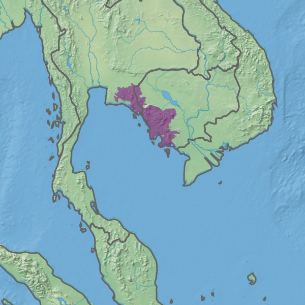 Ecoregion IM0106 - Cardamom Mountains rain forests (in purple)